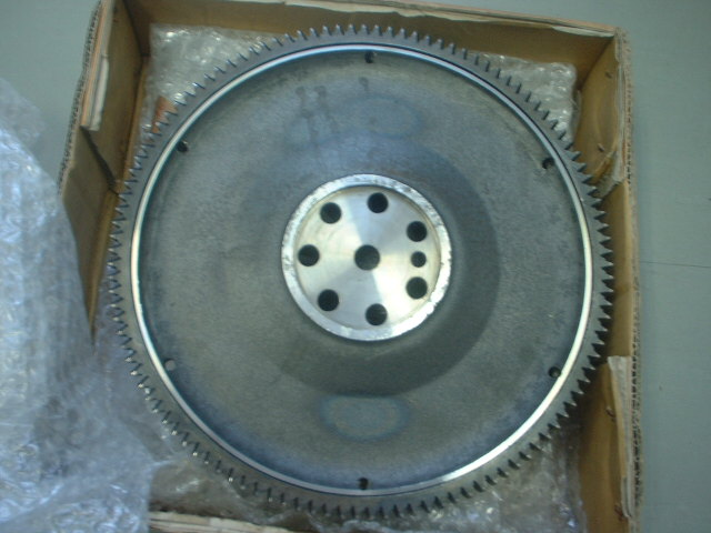 Flywheel for Mitsubishi 4G63.